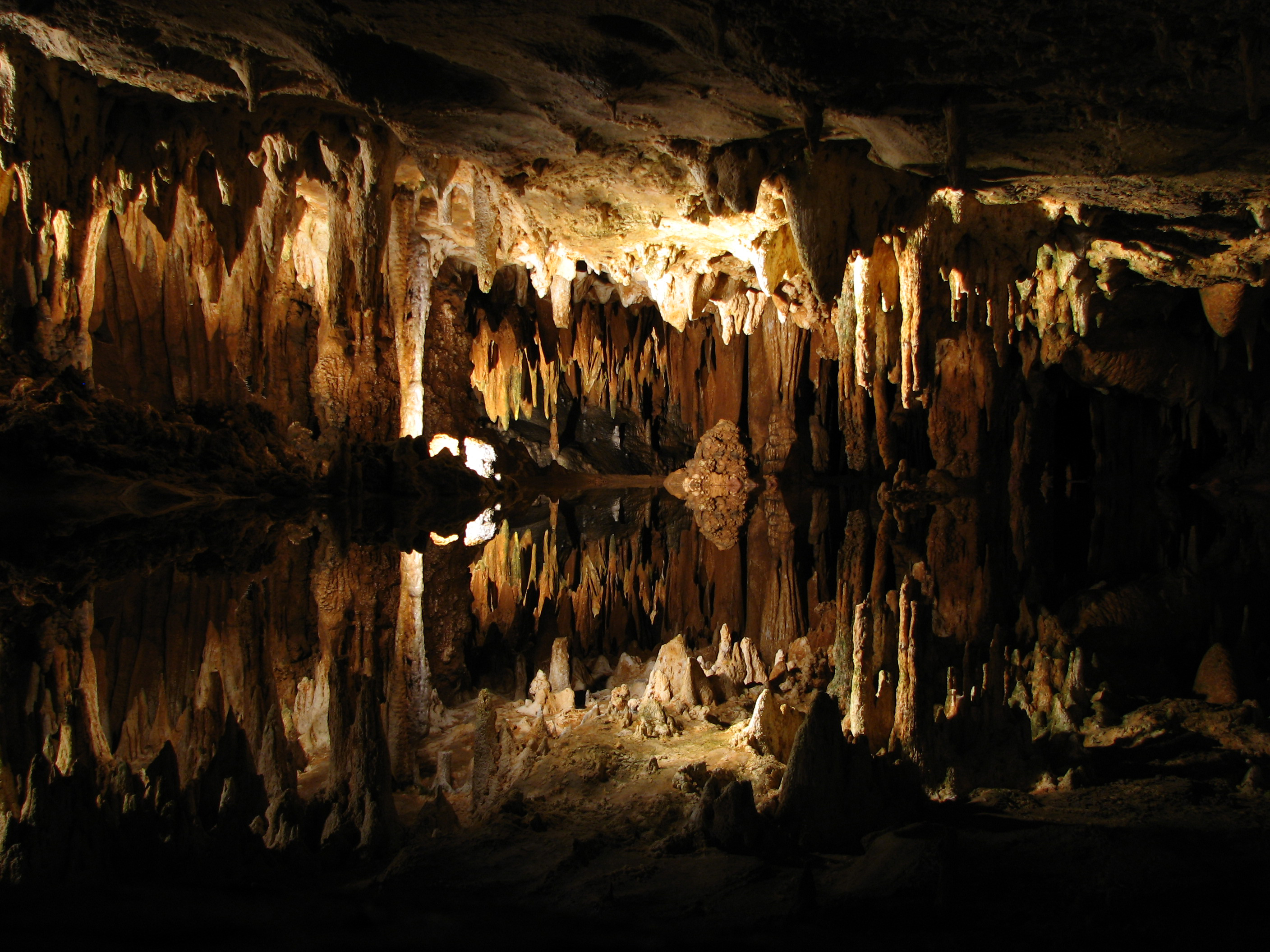 Luray Caverns